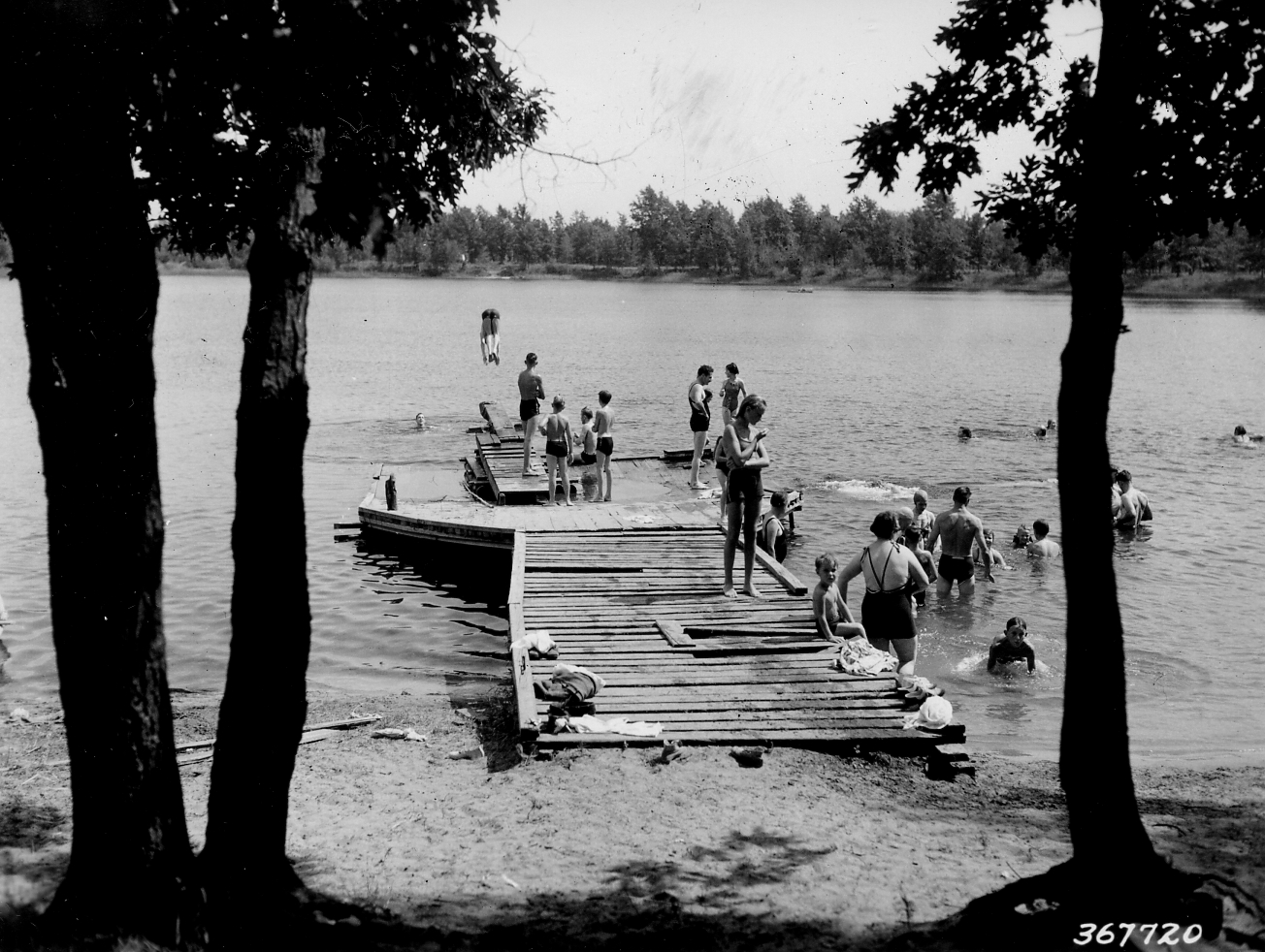 Scope and content: Original caption: Swimming, Crystal Lake, Wellston. Showing use of recreational developments in this area. Lower Mi NF.